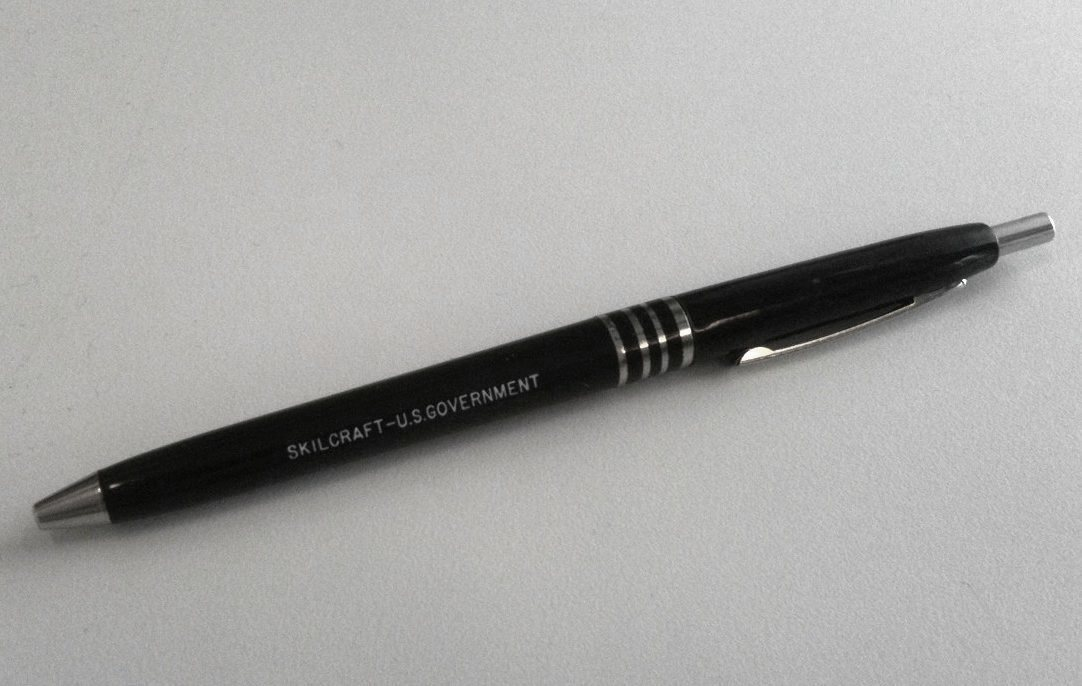 Skilcraft pen.